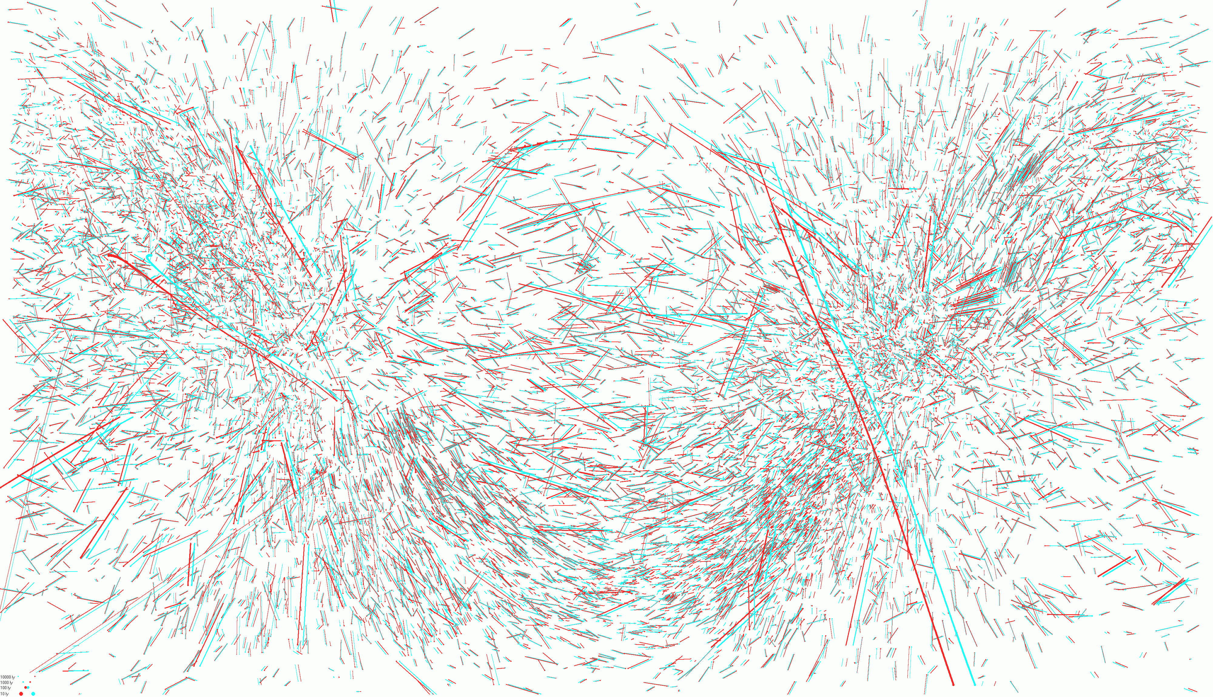 The movement of stars of spectral classes B and A around the apex (left) and antapex (right) in -/+ 200 000 years.